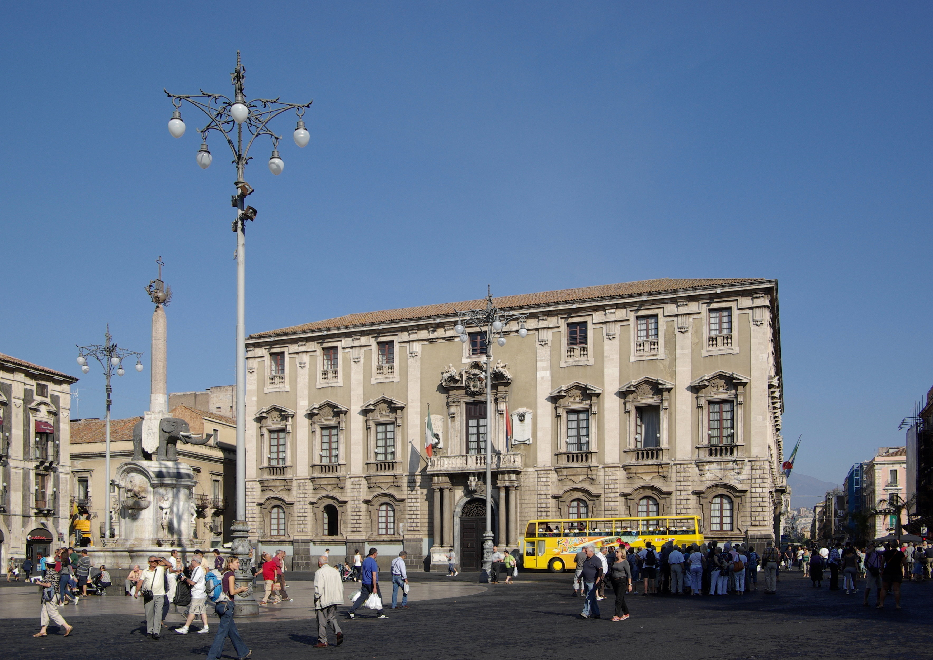 Italy, Sicily, Catanaia, Palazzo degli Elefanti, town hall